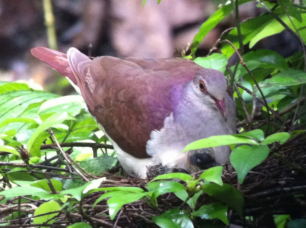 Violaceous Quail-Dove | Panama | 2012-5-28 | 2012-05-28at12-59-01